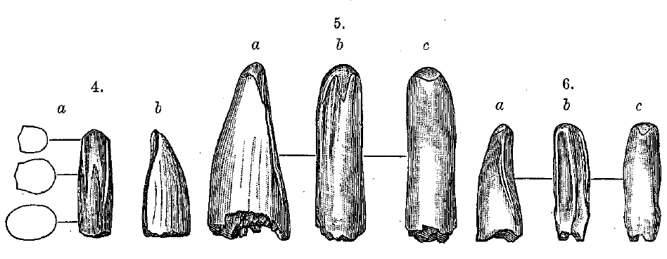 Illustrations of Aublysodon teeth by Leidy and O. C. Marsh, 4:A. mirandus 5: A. amplus 6: A. cristatus